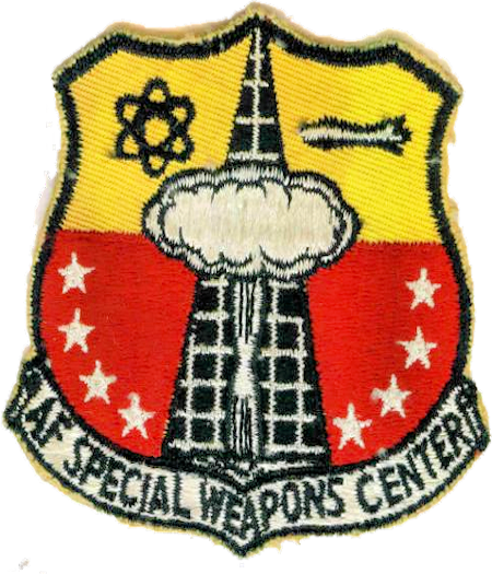 Emblem of the Air Force Special Weapons Center